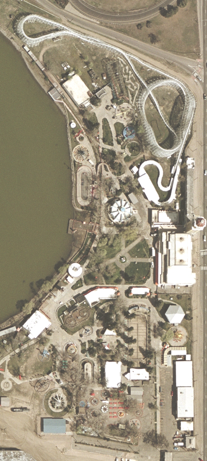 Lakeside Amusement Parkin Colorado satellite view in April 2004.